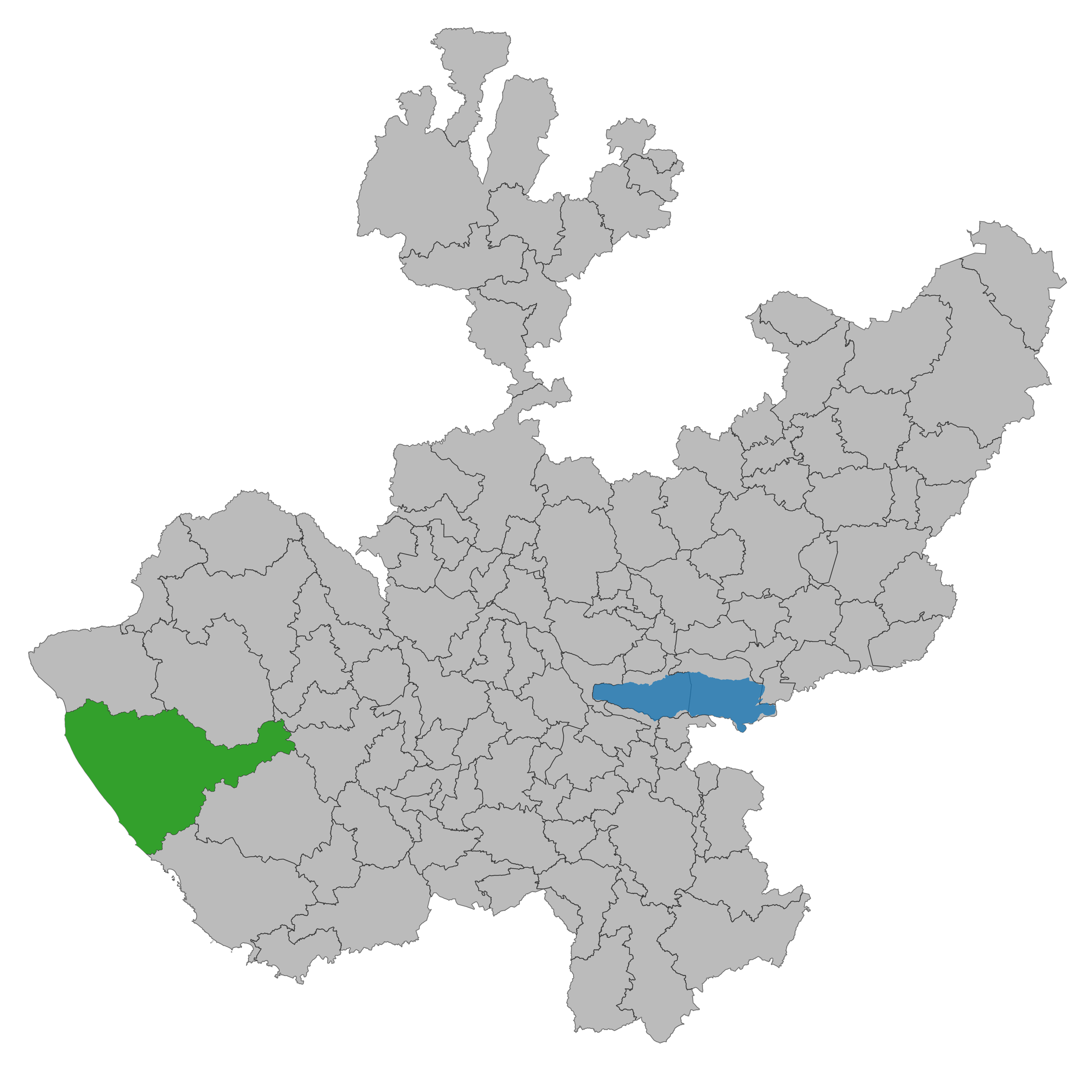 Municipality of Jalisco. Prepared with the software QGIS version 2.8.2 Wien & with information of SCINCE 2010 version 05/2013